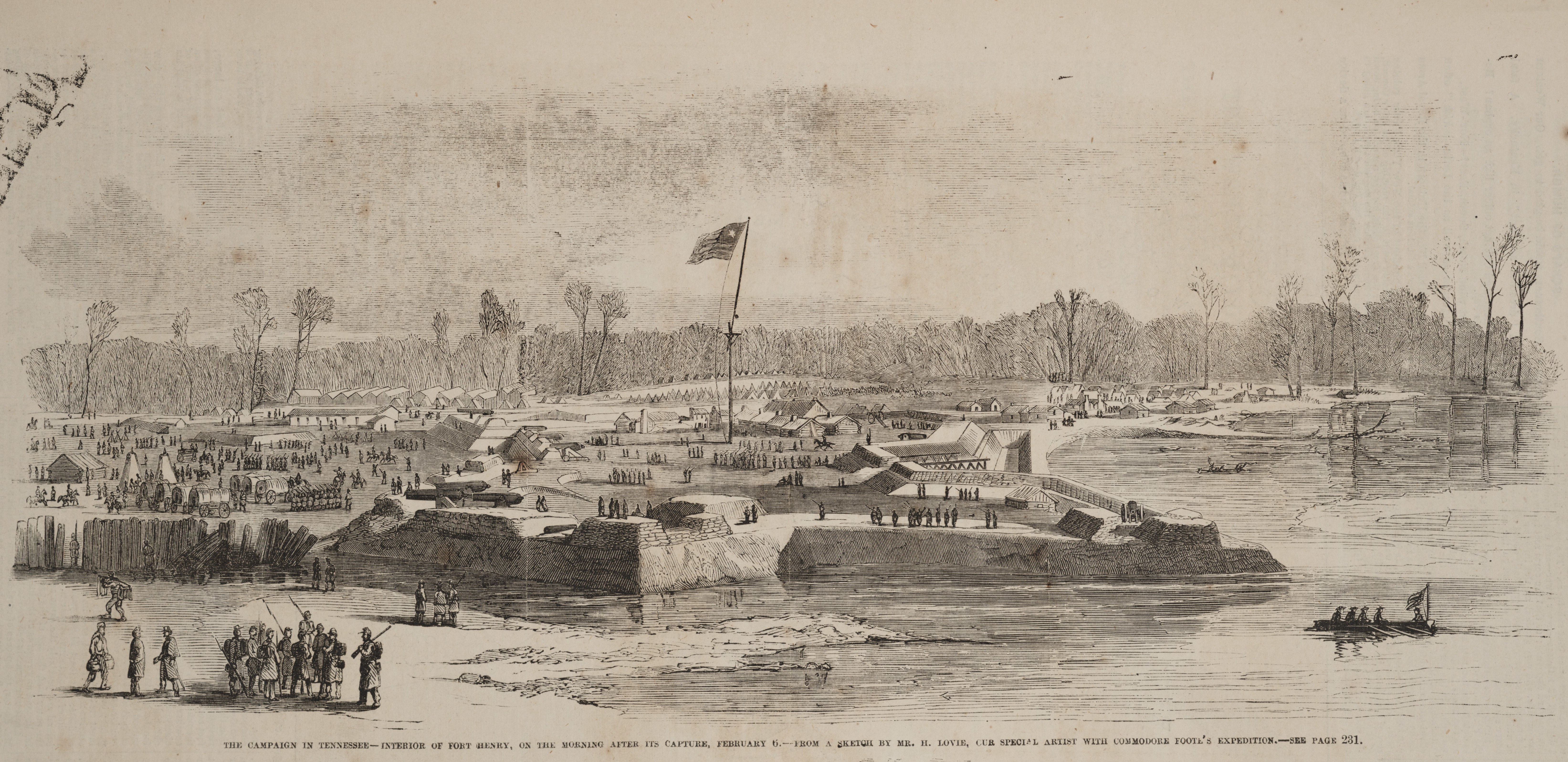 Title: The campaign in Tennessee -- Interior of Fort Henry, on the morning after its capture, February 6 / from a sketch by Mr. H. Lovie, our special artist with Commodore Foote's expedition. Abstract/medium: 1 print : wood engraving.